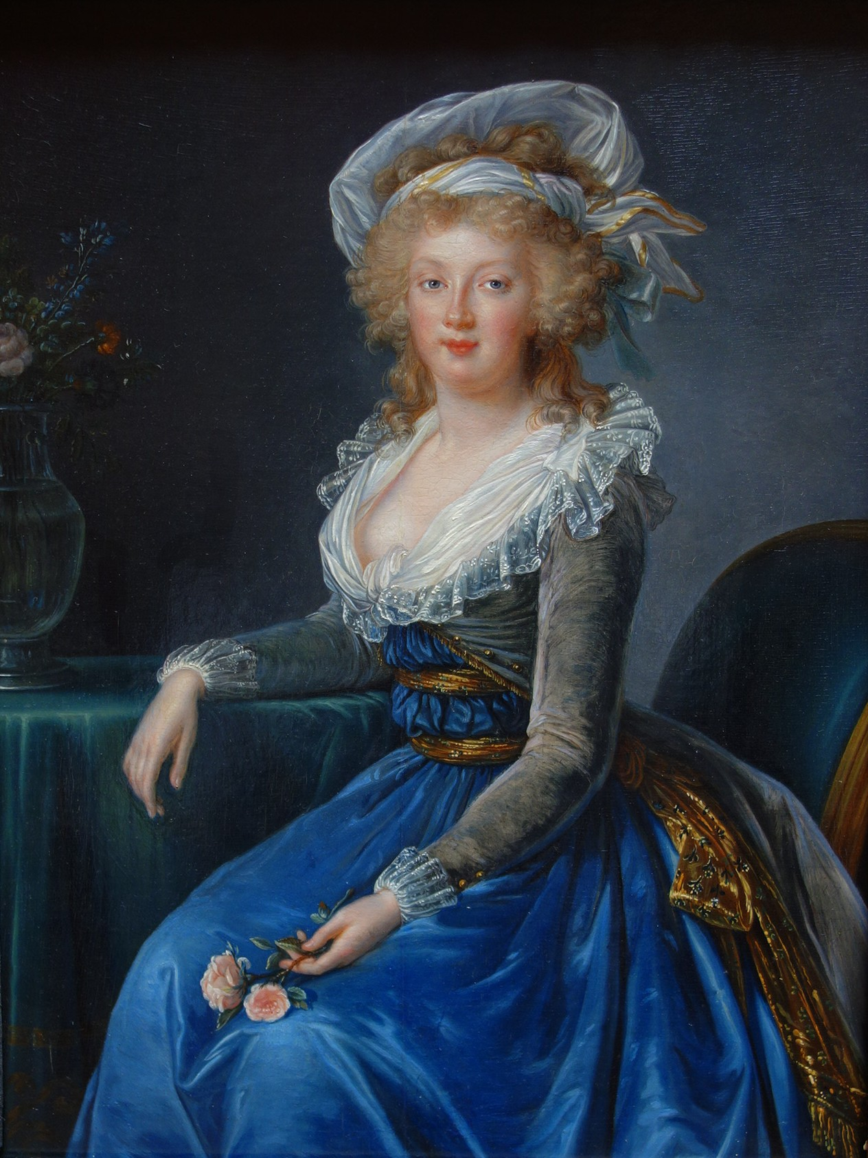 Portrait of Maria Teresa of Naples and Sicily